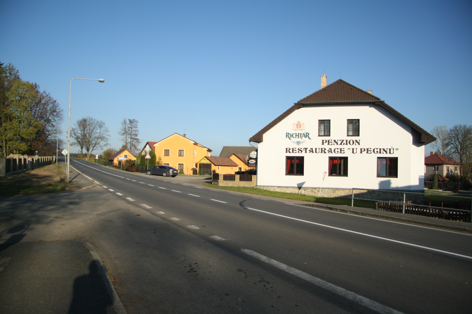 Center of Údavy, Ždírec nad Sázavou, Havlíčkův Brod district.